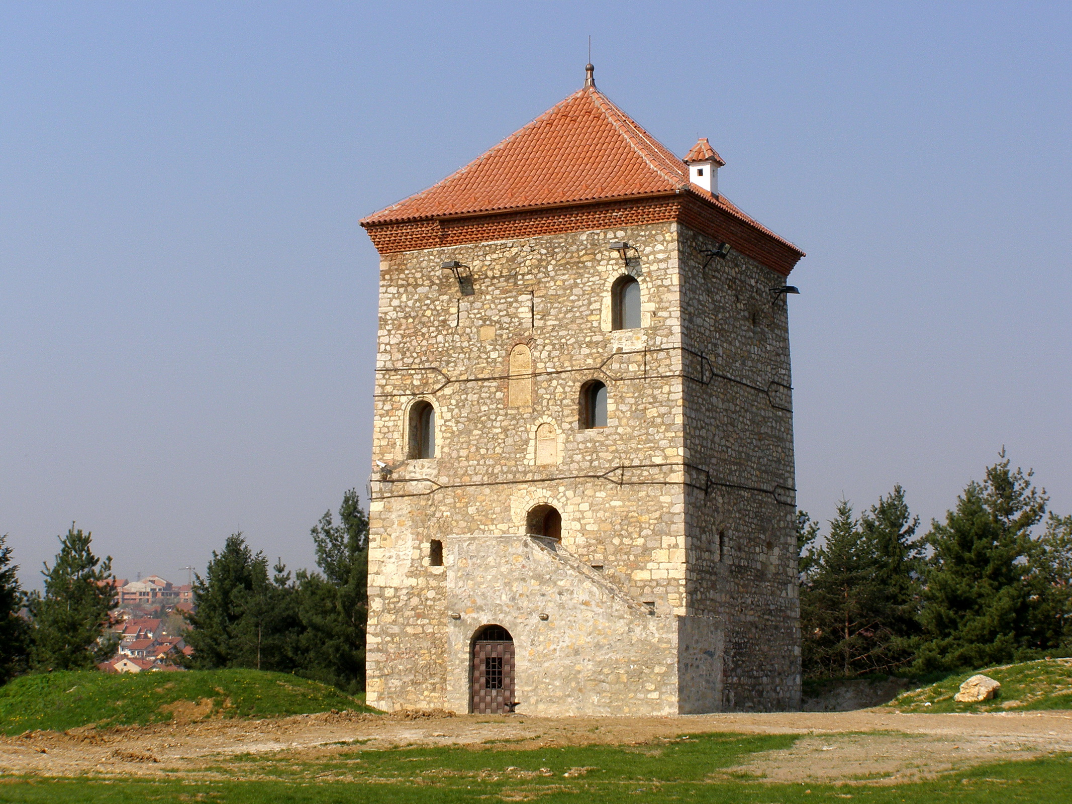 General look of tower of Nenadović in Valjevo